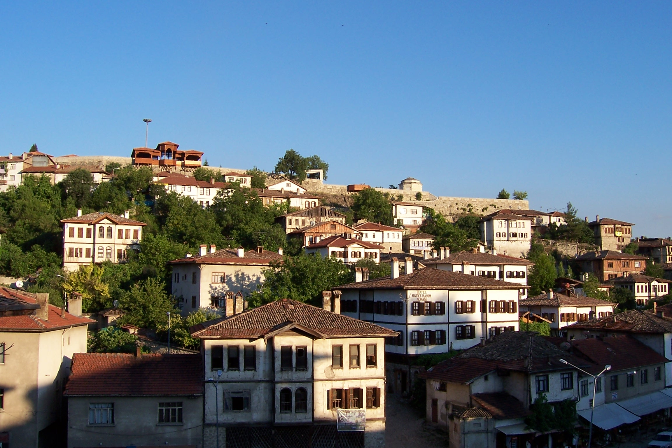 Traditional houses of Safranbolu, Karabük, Turkey